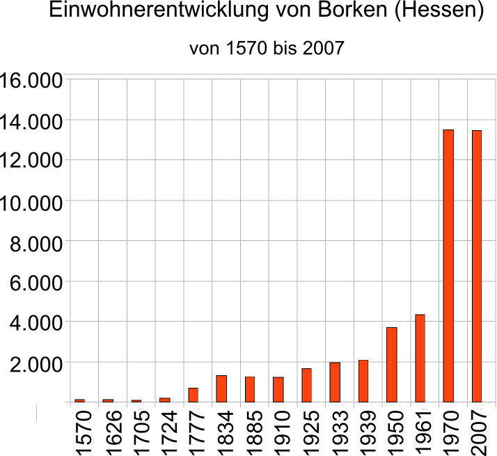 Population development of Borken, Hesse between 1570 and 2007